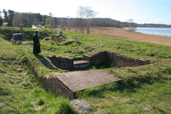 The ruins of Dronningholm Castle near Arresø in Denmark